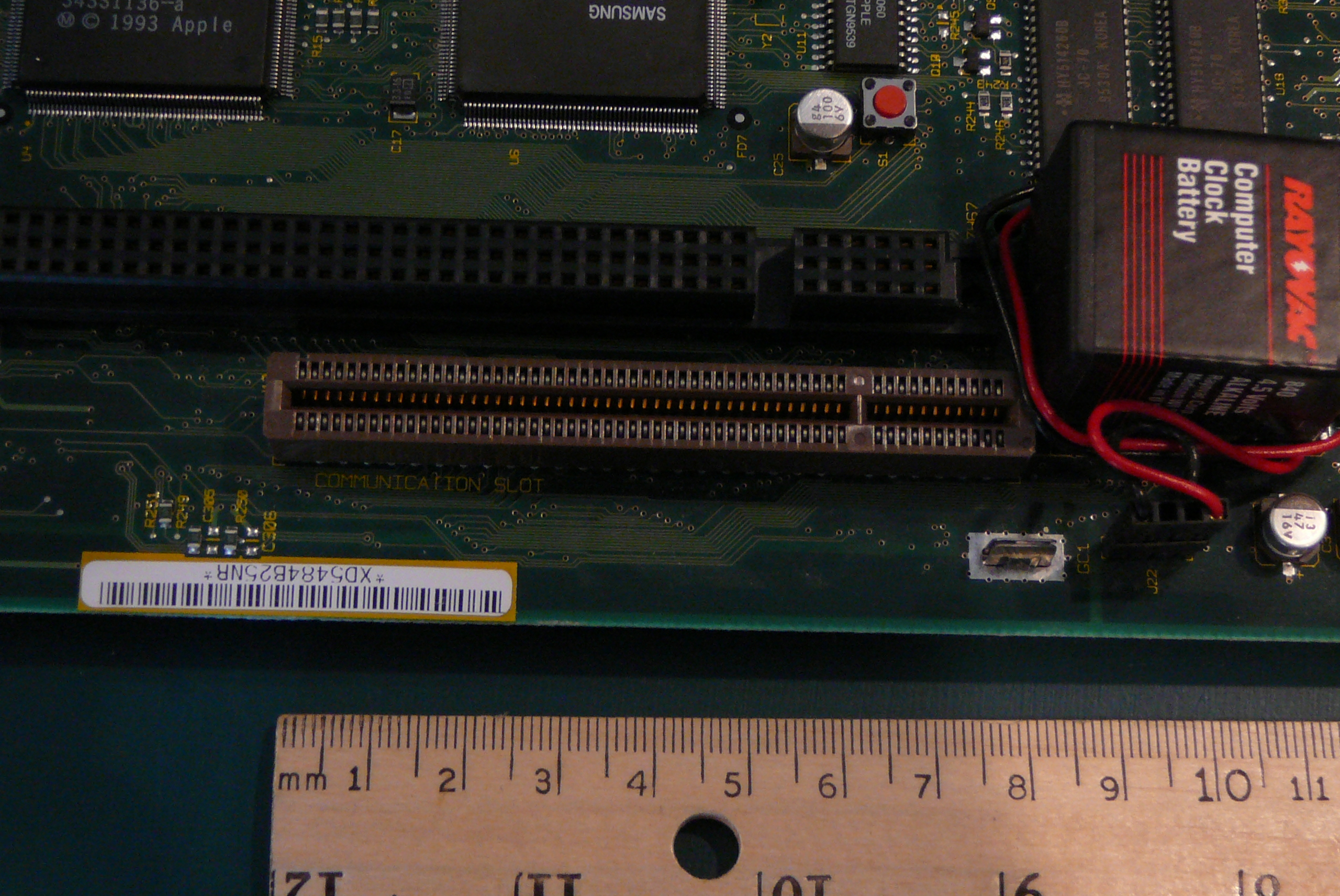 Apple Comm Slot 1 (bottom) from motherboard of a Performa 6220CD.